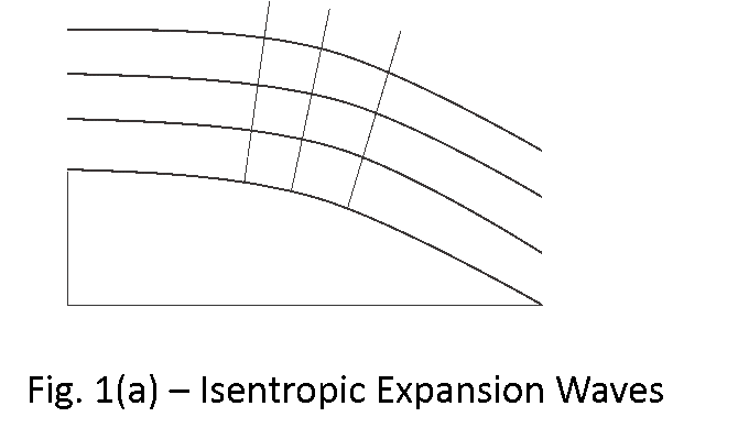 This represents the flow formation of expansion waves over a curved body.